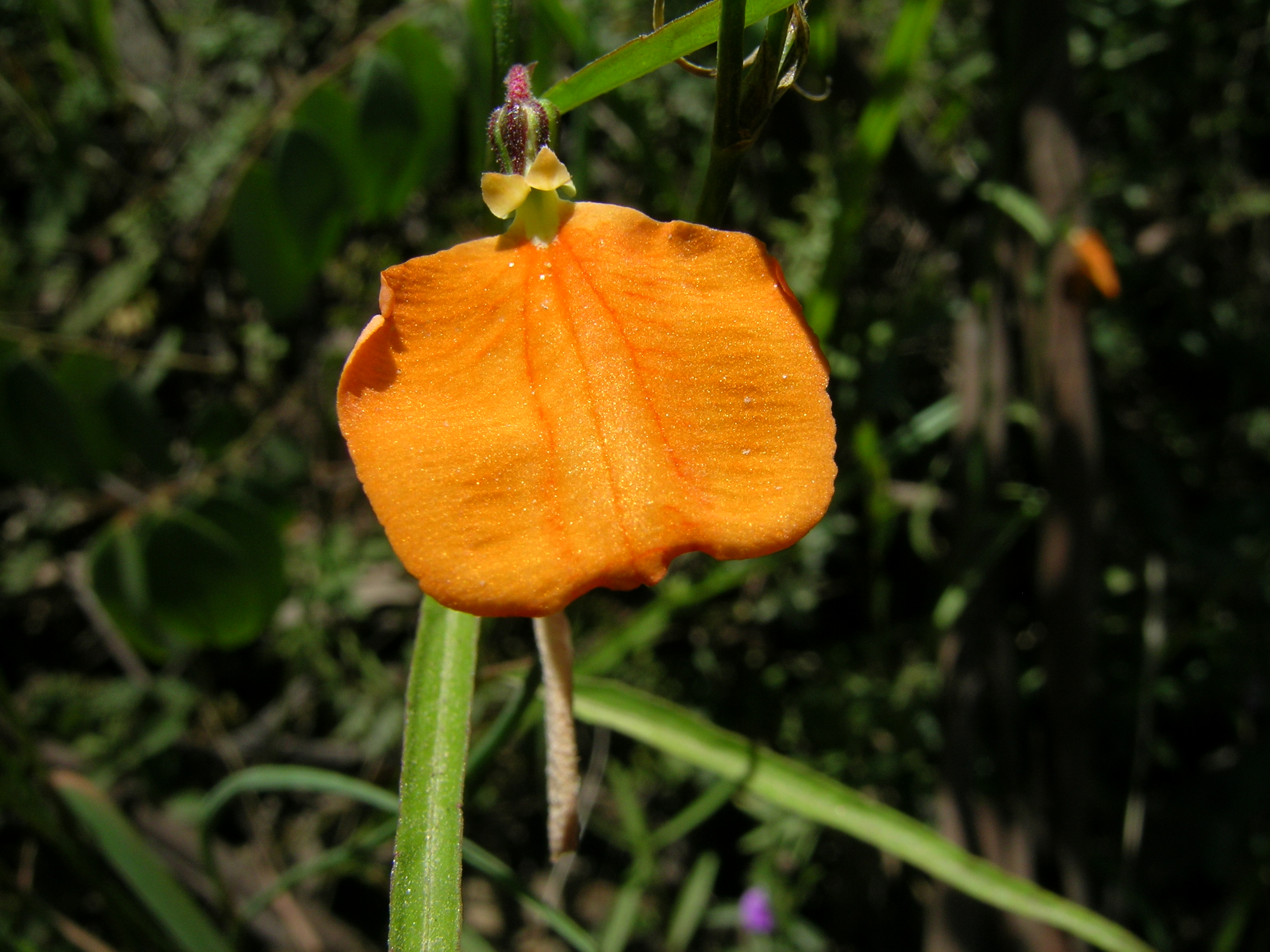 Flowers are solitary. Sepals are 2.5–4.5 mm long. Petals are orange or yellow; the lower petal is spade-shaped and 8-15 mm long. Upper petals are 3–4.2 mm long and lateral petals are 4–5 mm long.